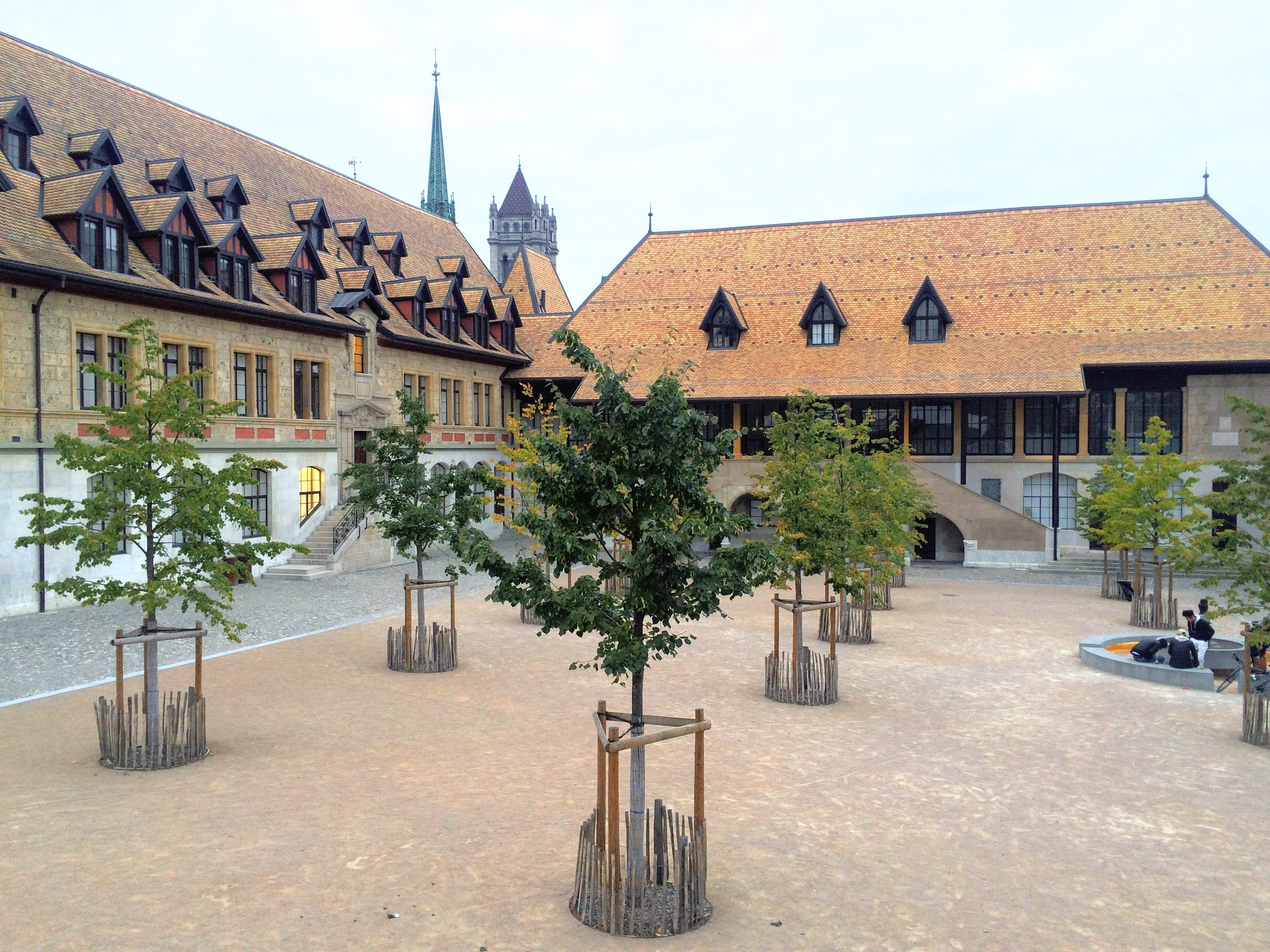 College Calvin